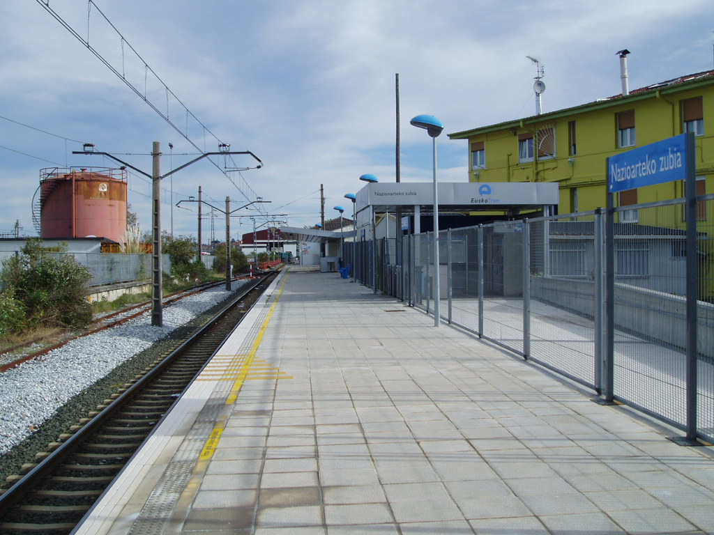 Railway station on the border between Spain and France. Irun (Gipuzkoa). Operating company: Euskotren.